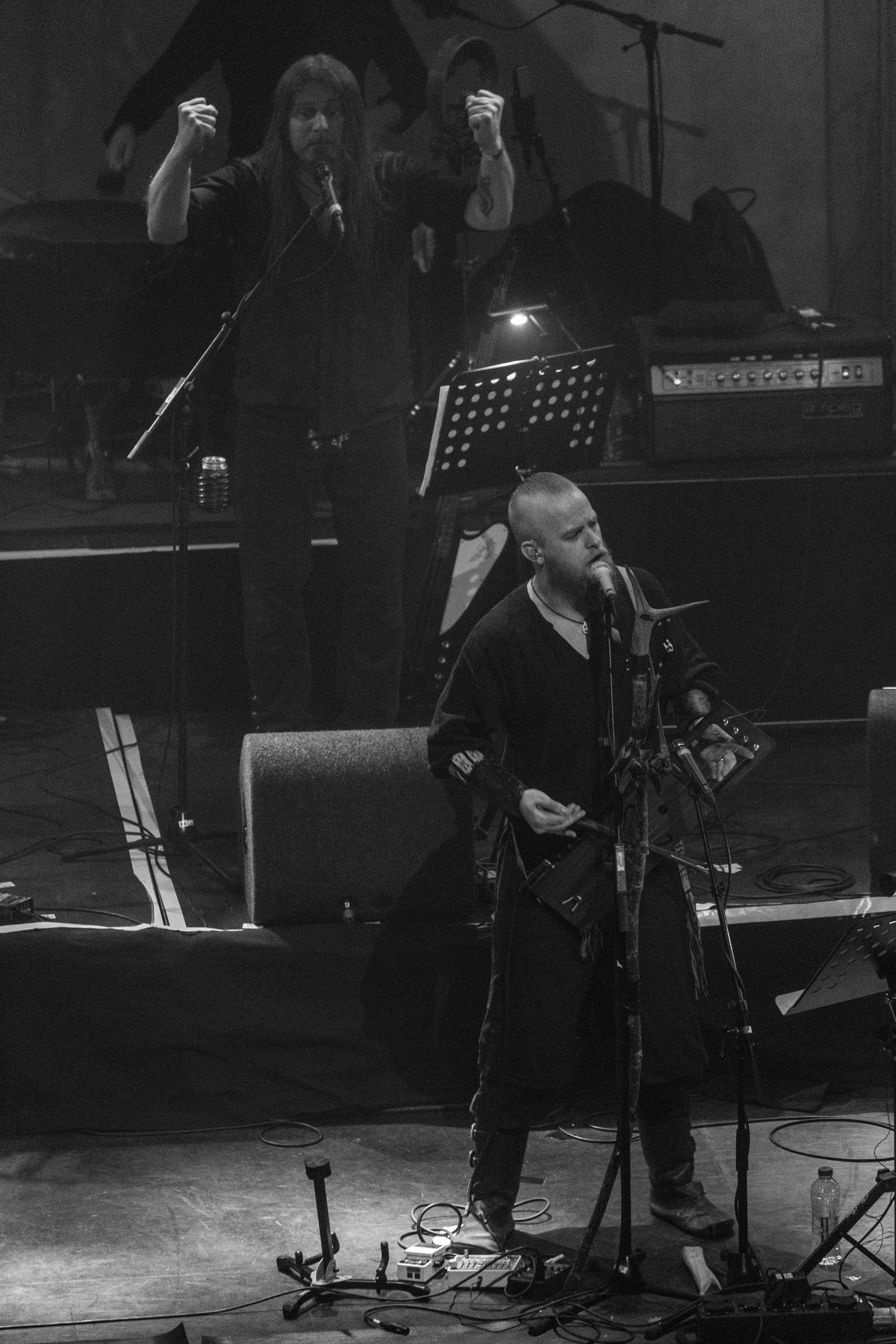 Skuggsja performing at Roadburn Festival, april 2015